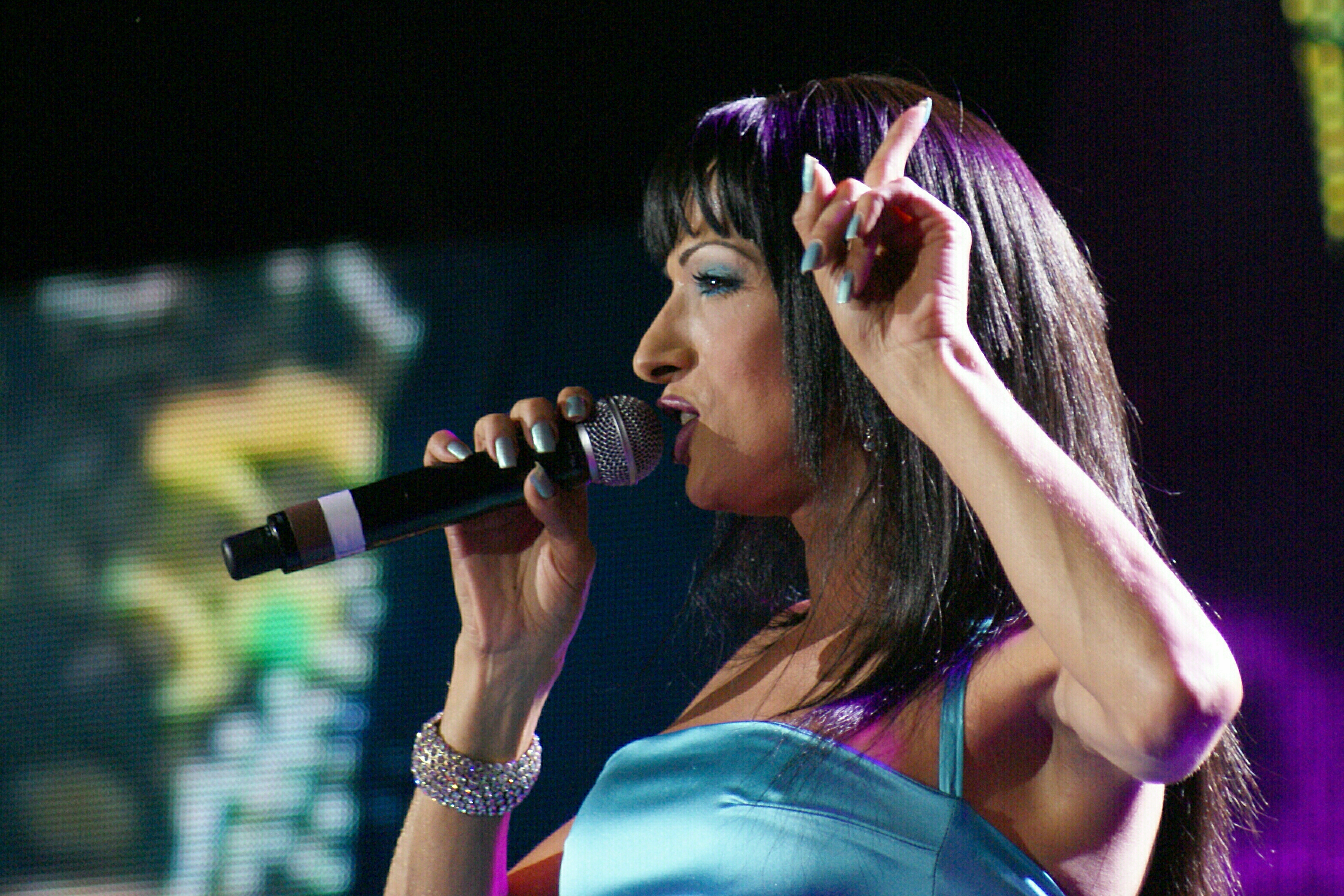 Singer Dana International on Eurovision Song Contest 2009.